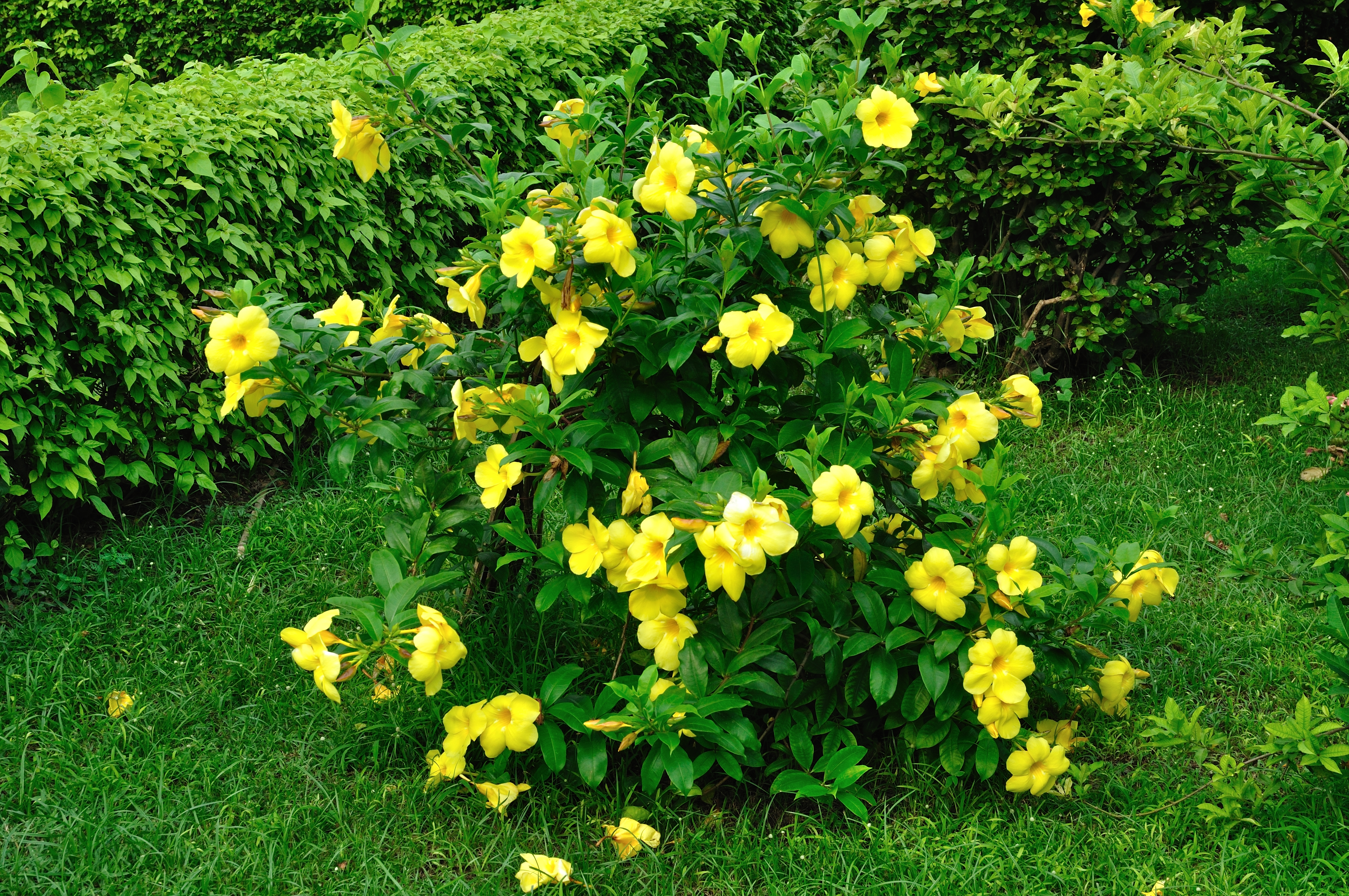 The garden flower, Allamanda Cathartica also known as Yellow Bell, Golden Trumpet, Buttercup Flower or Har-kakra in Bengali. Photograph taken in mid-monsoon at Kolkata.